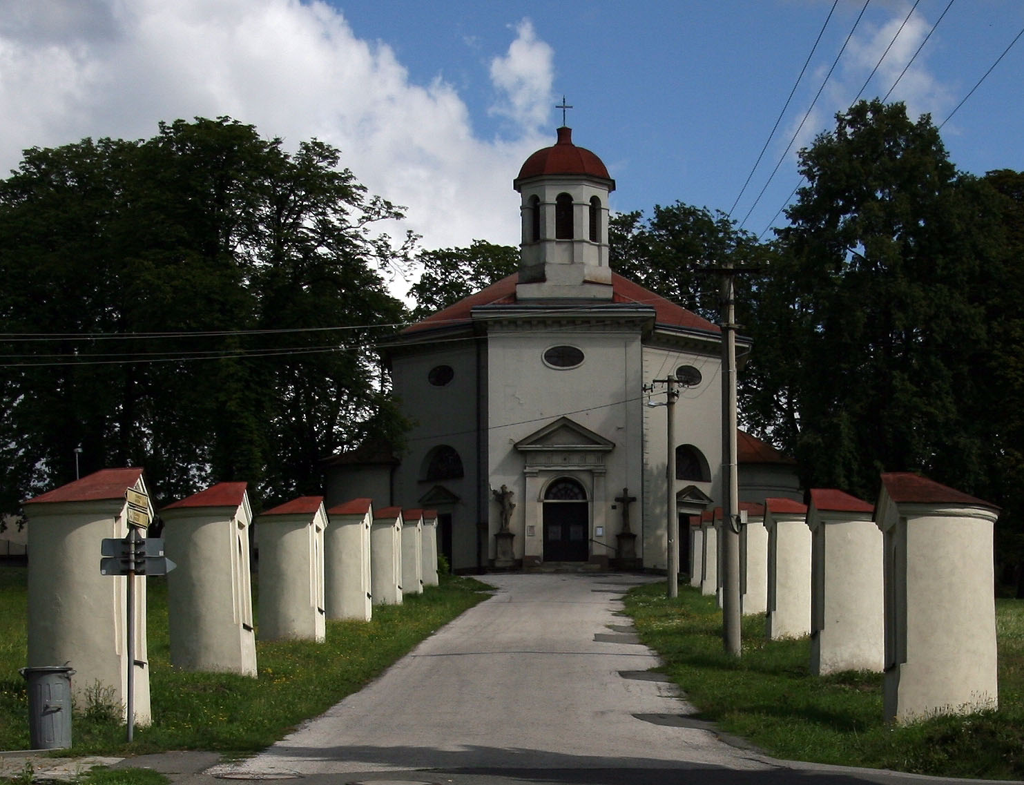 Church of Saint Henry in Peřvald. Karviná District, Moravian-Silesian Region, Czech Republic